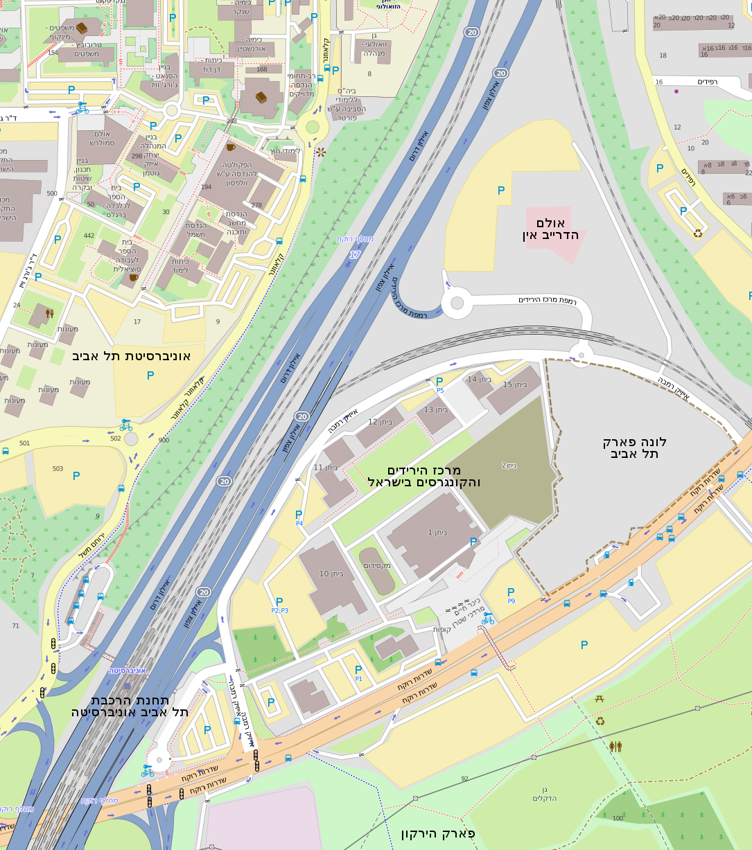 Israel Trade Fairs & Convention Center Map